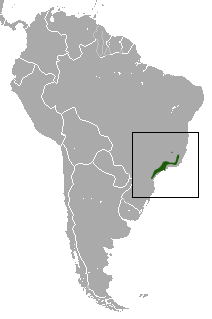 Brazilian Slender Opossum (Marmosops paulensis) range